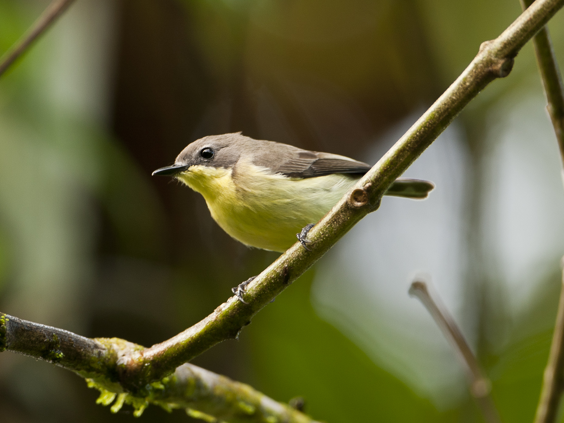 Golden-bellied Gerygone